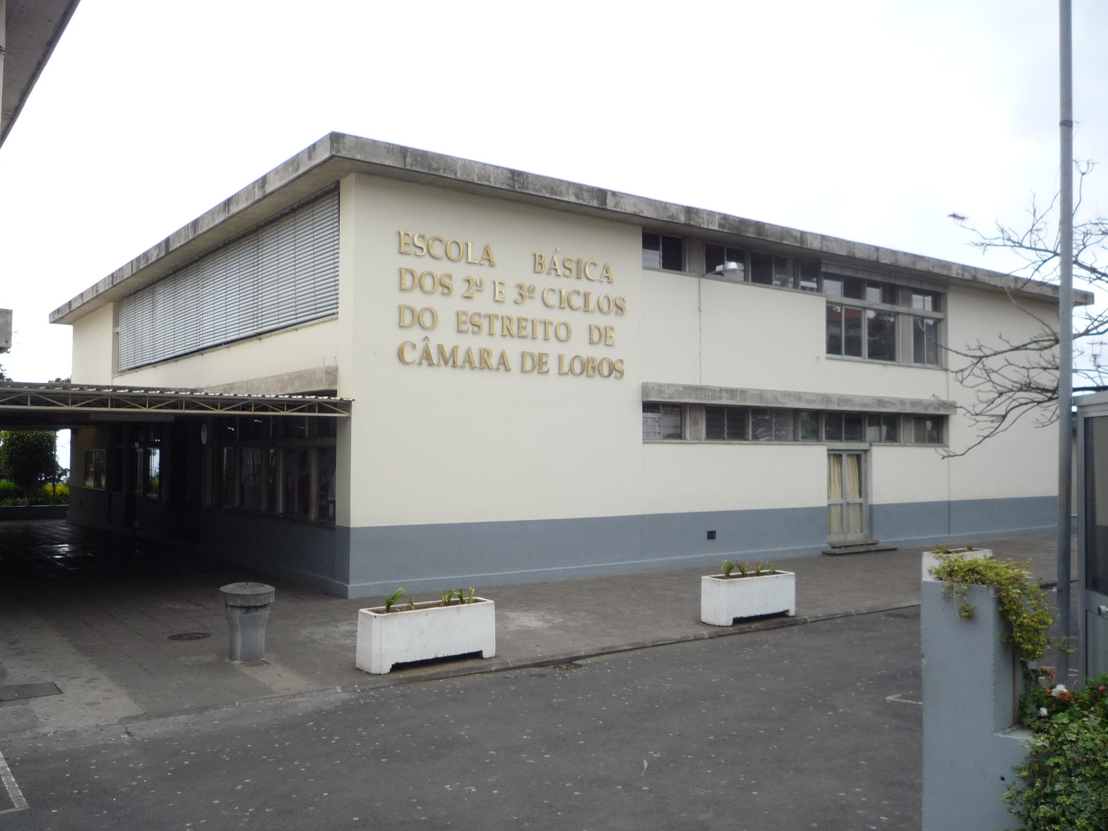 The school: Escola Básica dos 2° e 3° Ciclos do Estreito de Câmara de Lobos at 32°40′18″N 16°58′44″W / 32.671731°N 16.978844°W in Estreito de Câmara de Lobos, Madeira.